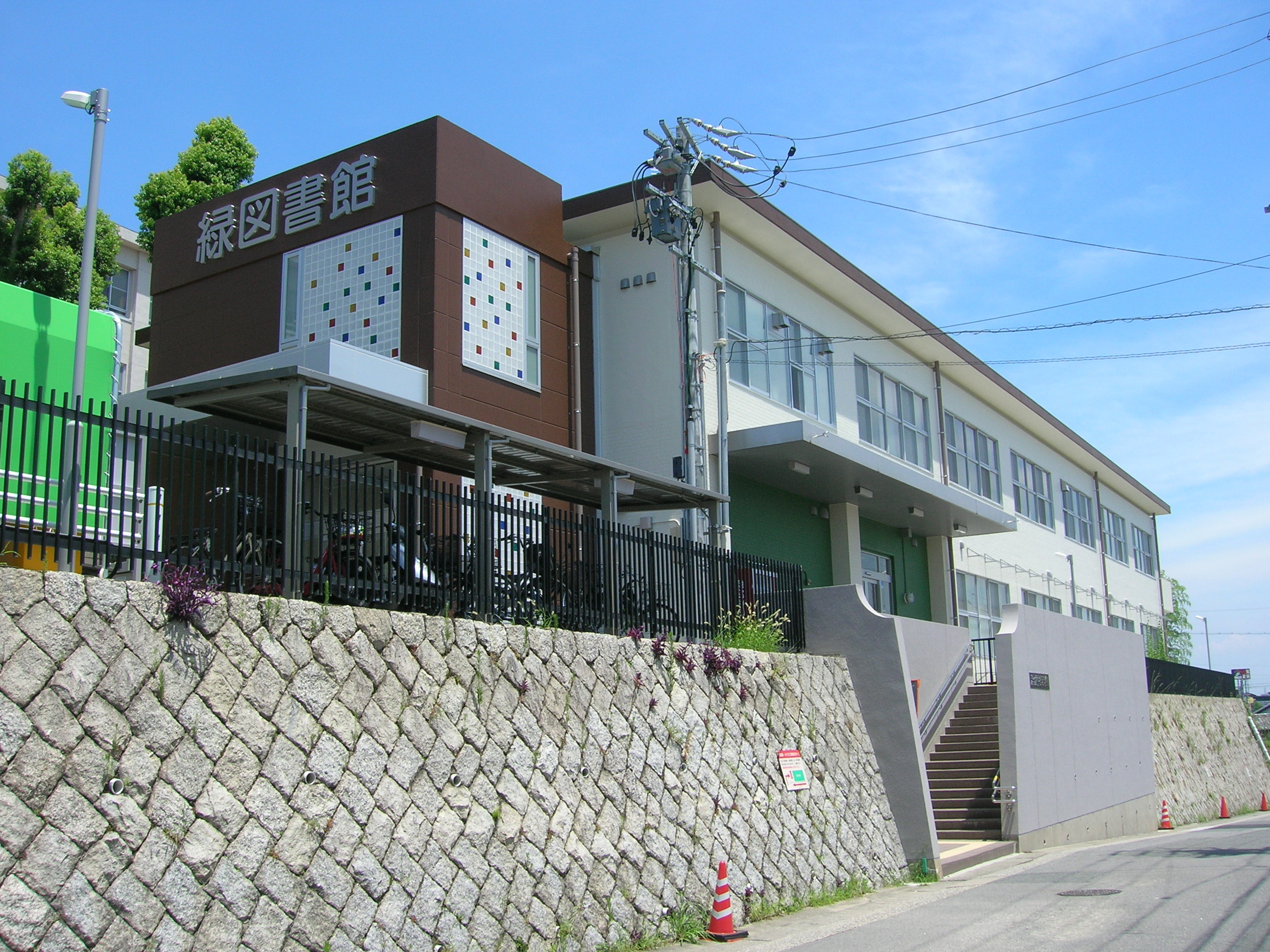 Nagoya City Midori library in Midori-ku, Nagoya city, Aichi Prefecture, Japan.